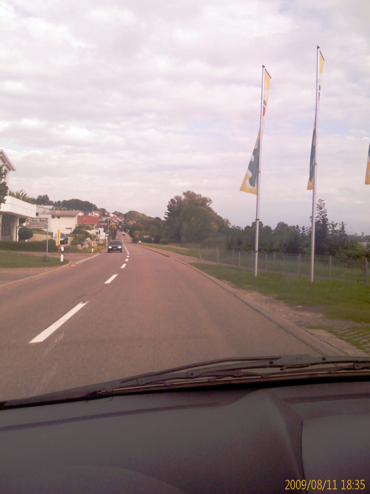 Eich, canton of Luzern, SwitzerlandEsperanto: Eich, Kantono Lucerno, Svislando